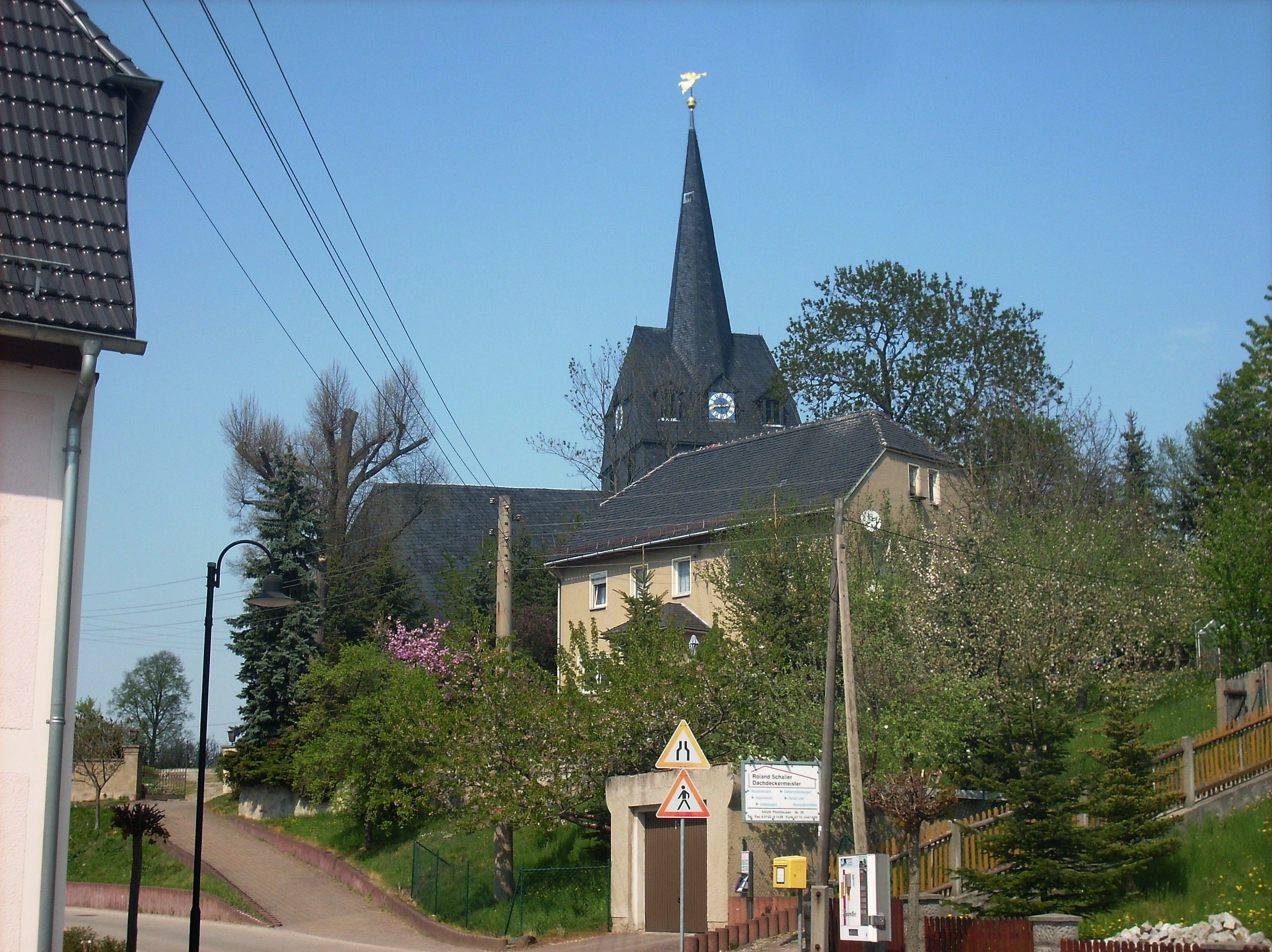 At the church in Thonhausen (district of Altenburger Land, Thuringia)